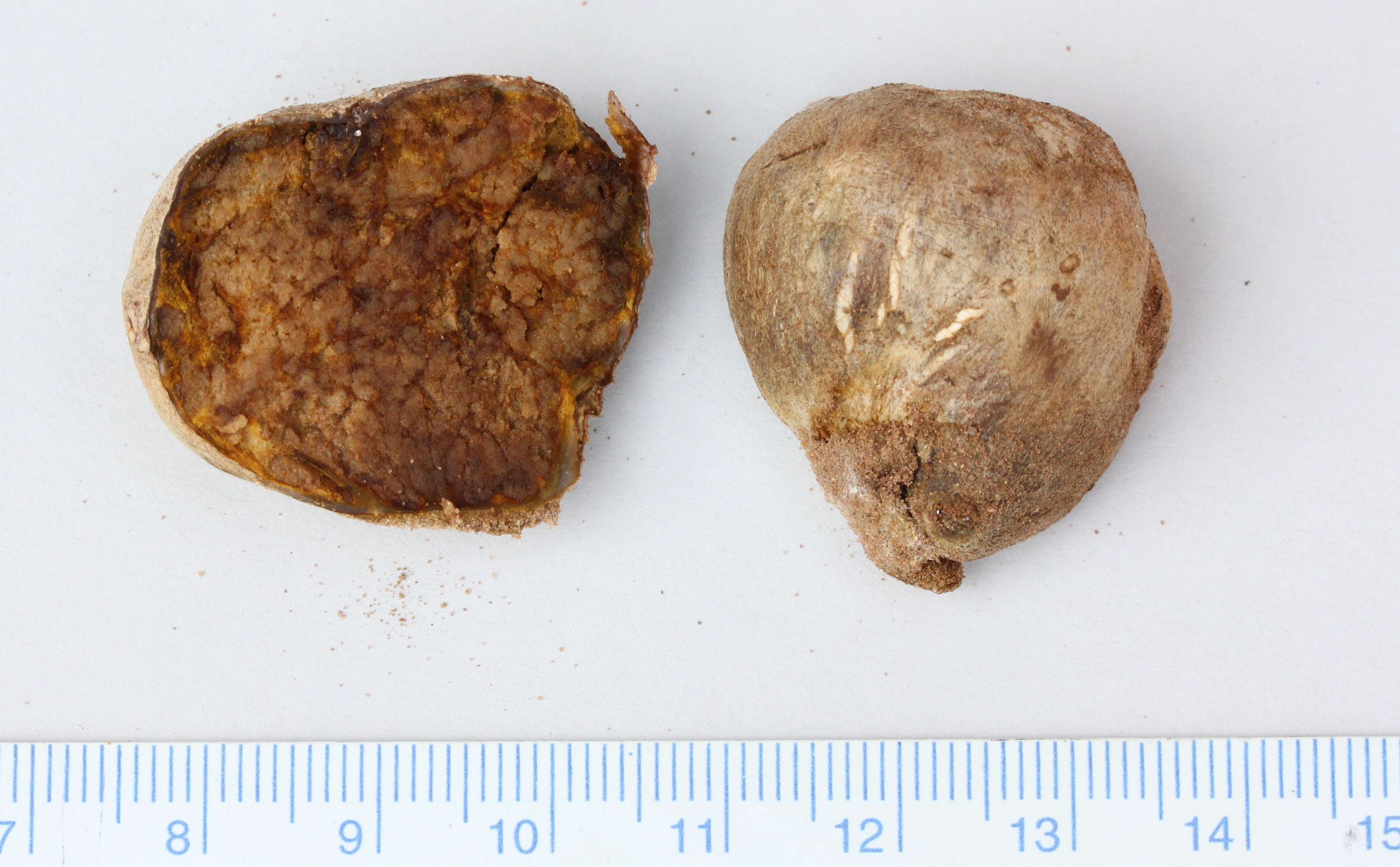 Carbomyces Gilkey Image location: Corona, Torrance Co., New Mexico, USA In leaf litter under Juniperus monosperma. This had been dug up by some rodent (note teeth marks) and left for us as a gift. There were many digs but no leftover truffles to be found. This smells strongly spermatic. The scope available is without a reticle, but just guessing I’d say they were 8-12μ, round, smooth, the center appearing as if it was composed of numerous BBs. Based on microscopic features For more information about this, see the observation page at Mushroom Observer.